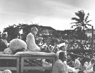 Gandhi at a prayer meeting, 1946.